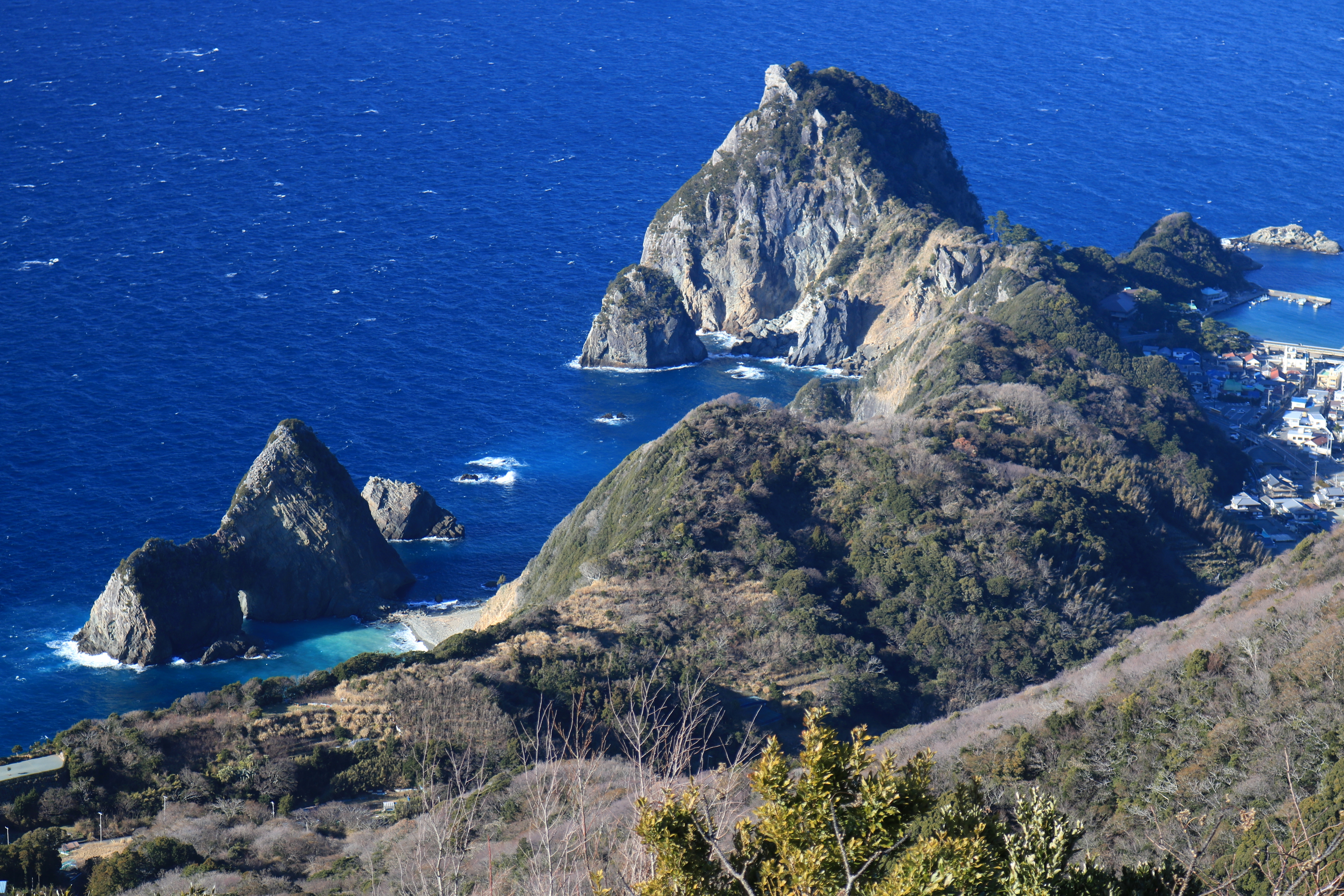 Senganmon and Mount Eboshi seen from Mount Takato in Shizuoka Prefecture, Japan.